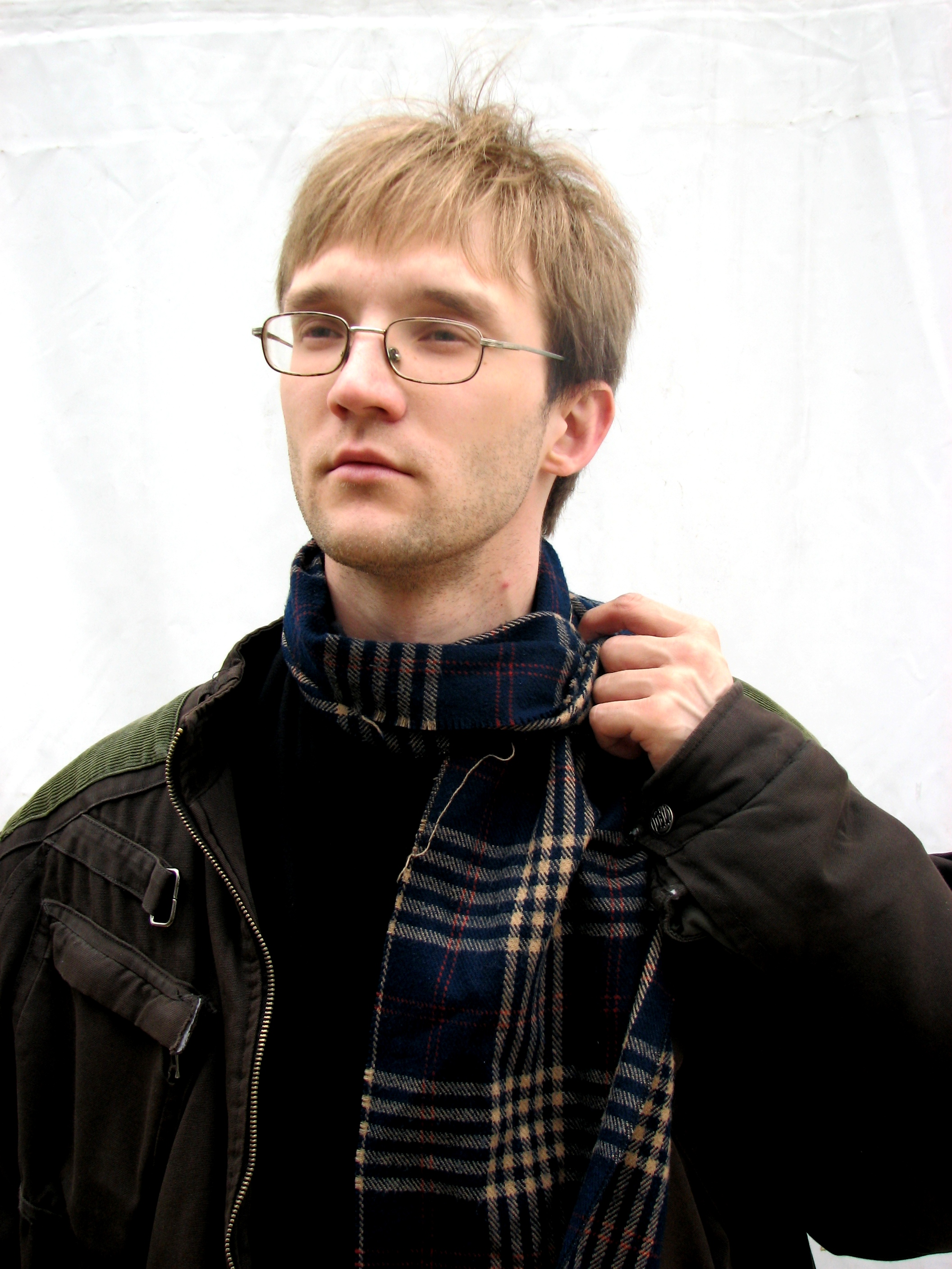 Kaarel Kressa in Tallinn Literature Festival HeadRead